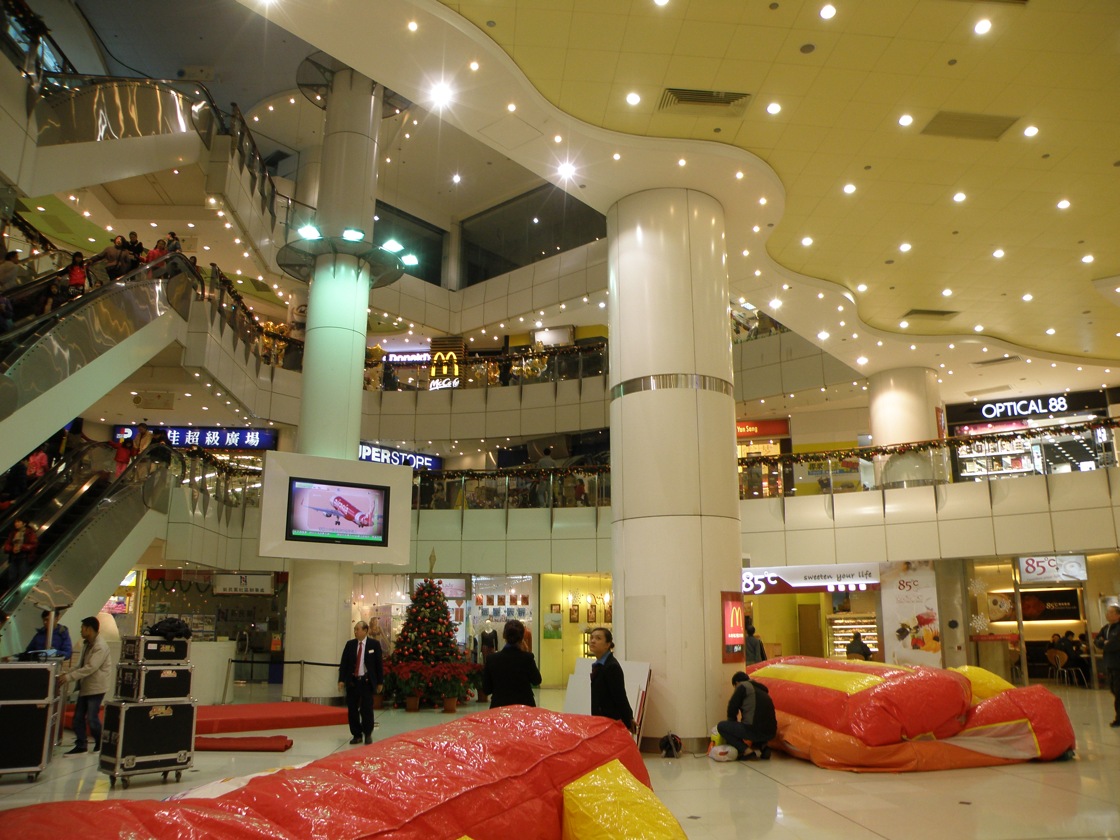 Marina Square (West Centre) in Ap Lei Chau, Hong Kong.